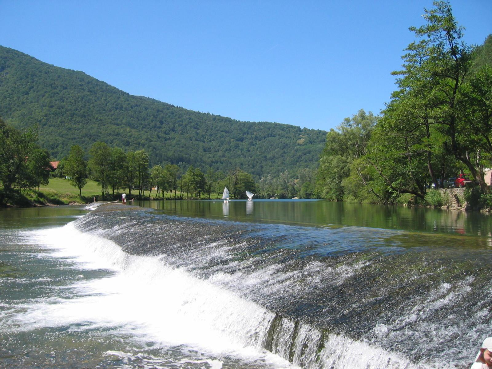 Kolpa, river in the south of Slovenia. Dam in the village Prelesje. photo:Ziga 13:17, 13 August 2006 (UTC)